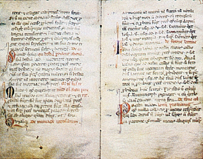 Forum turolii. Privilegio de Pedro II concedido a Teruel (6-III-1208)